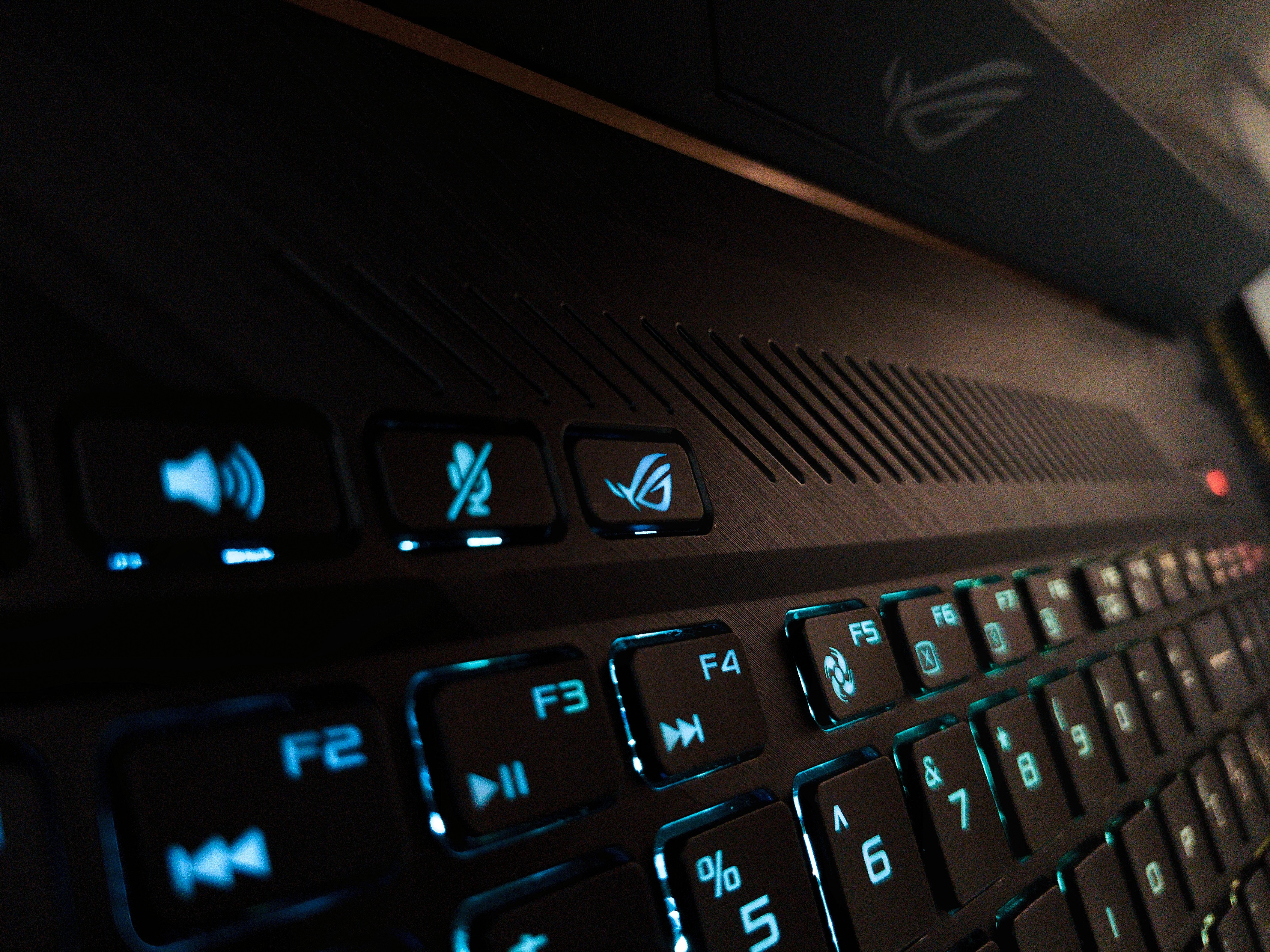 Keyboard of Asus ROG GL503GE Laptop